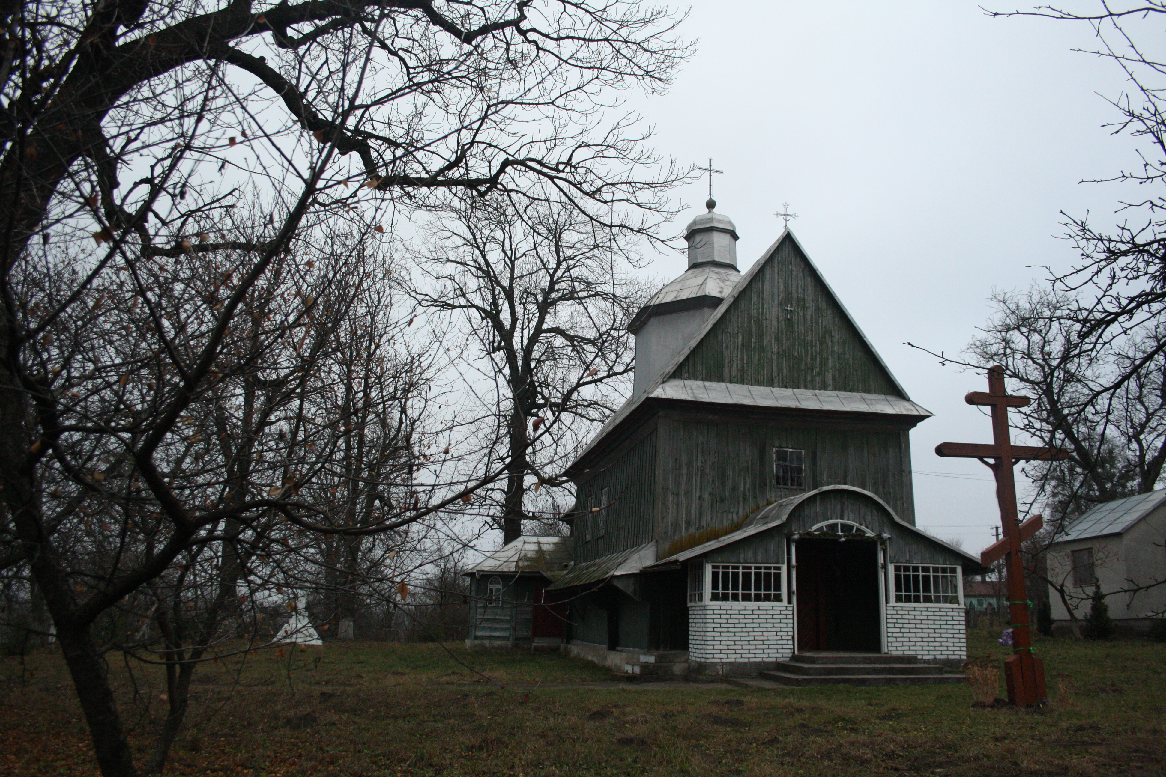 Old wooden church in Pidhaichyky was build in 1756. Pidhaychyky is located on the road Lviv - Ternopil, Kropyvnytskyi, 37 km west of Zolochiv. Population in 1900 was 793 persons; in 1943 - 801 persons; in 1968 - 1109 persons. There is secondary school in the village. Pidhaichyky was first mentioned in written sources in 1397.